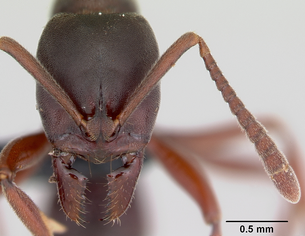 Head view of ant Hypoponera sakalava specimen casent0494141.